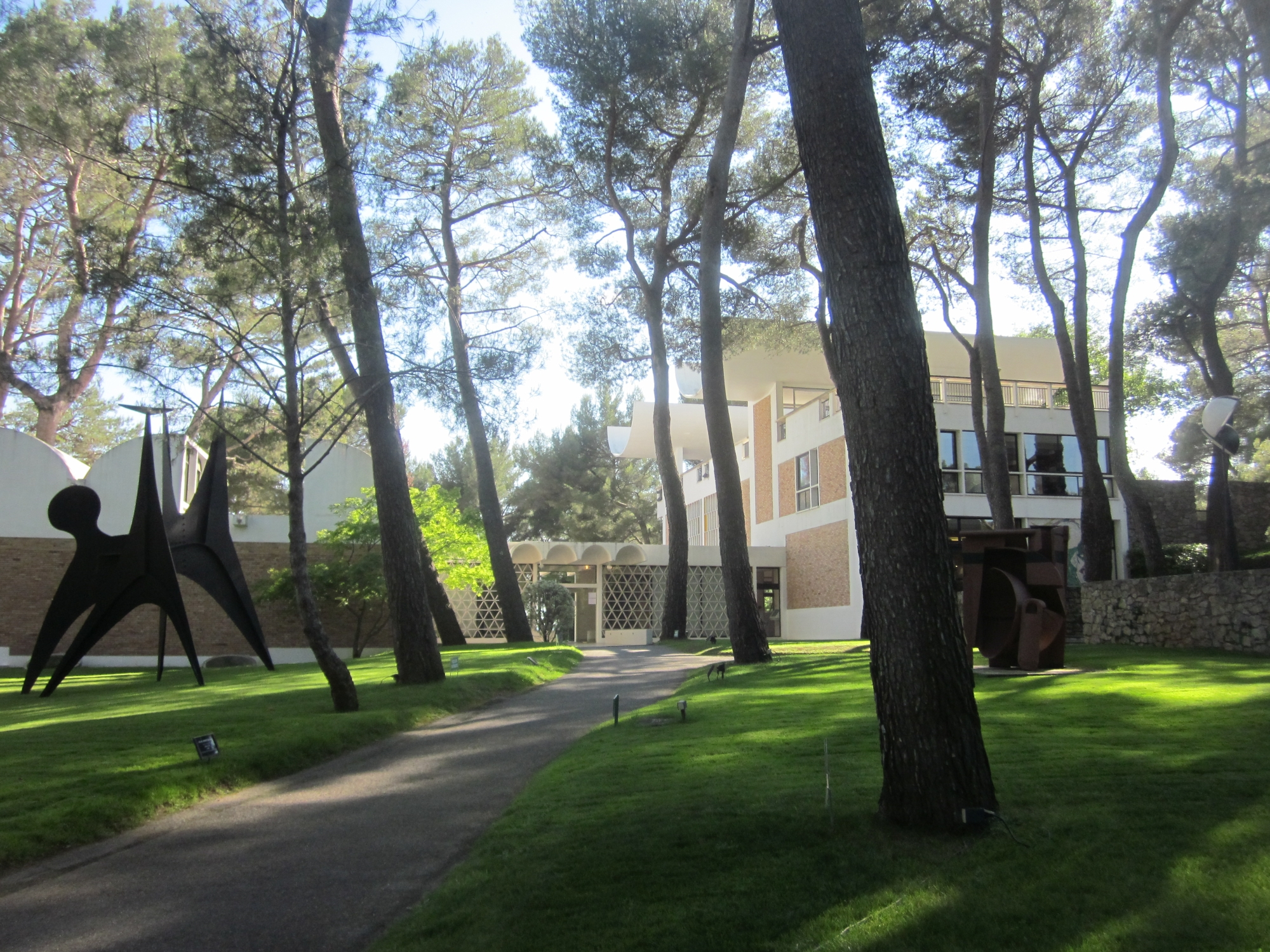 The Fondation Maeght building and grounds in Saint-Paul de Vence, France.